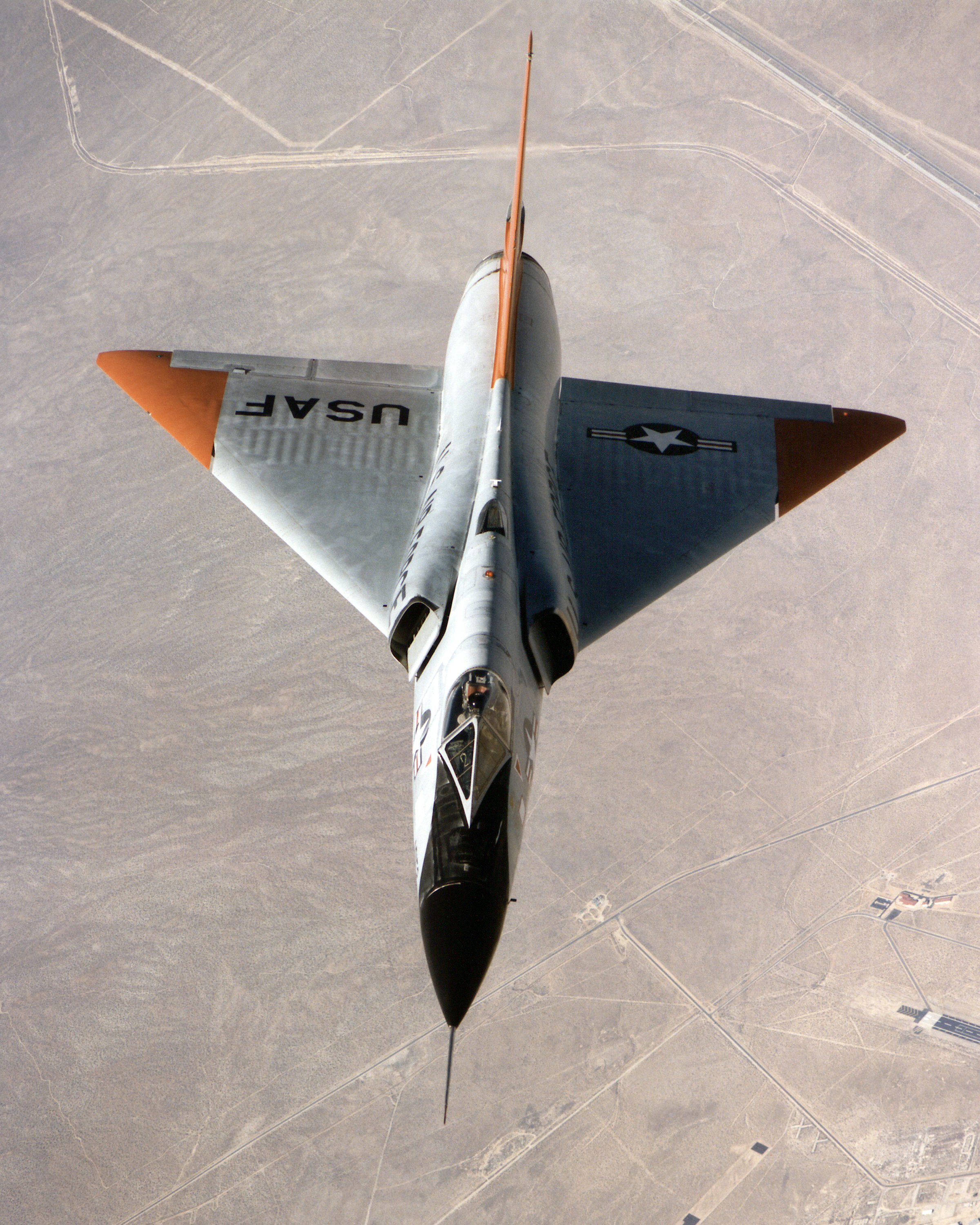 Eclipse program QF-106 aircraft in flight, view from tanker